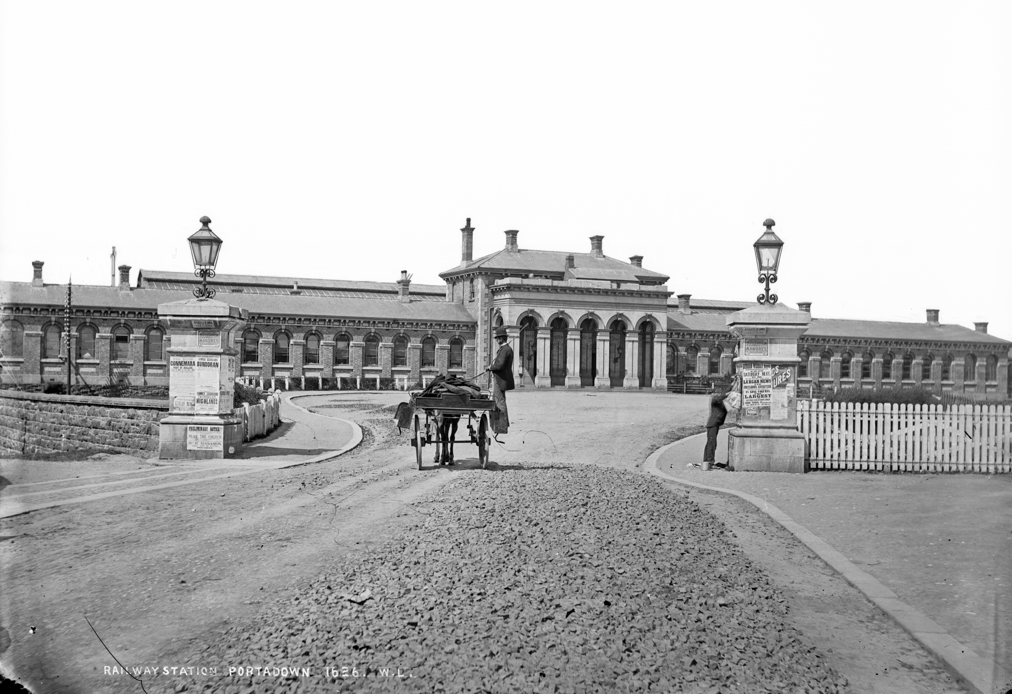 Cheating a little with the title of this one, as there is no "Post No Bills" sign to be seen (although we know they existed in Ireland long before this photo was taken). However, I fell in love with it when I saw the gentleman caught in the act of sticking up posters on the gate piers of Portadown Railway Station. And what a joy those posters are! Hope you can make out the posters on the large size of this photo, but shout if you'd like me to add notes for any of them, and the best bit is that they date this photo to around May of 1879... Date: Circa May 1879 NLI Ref.: L_CAB_01626